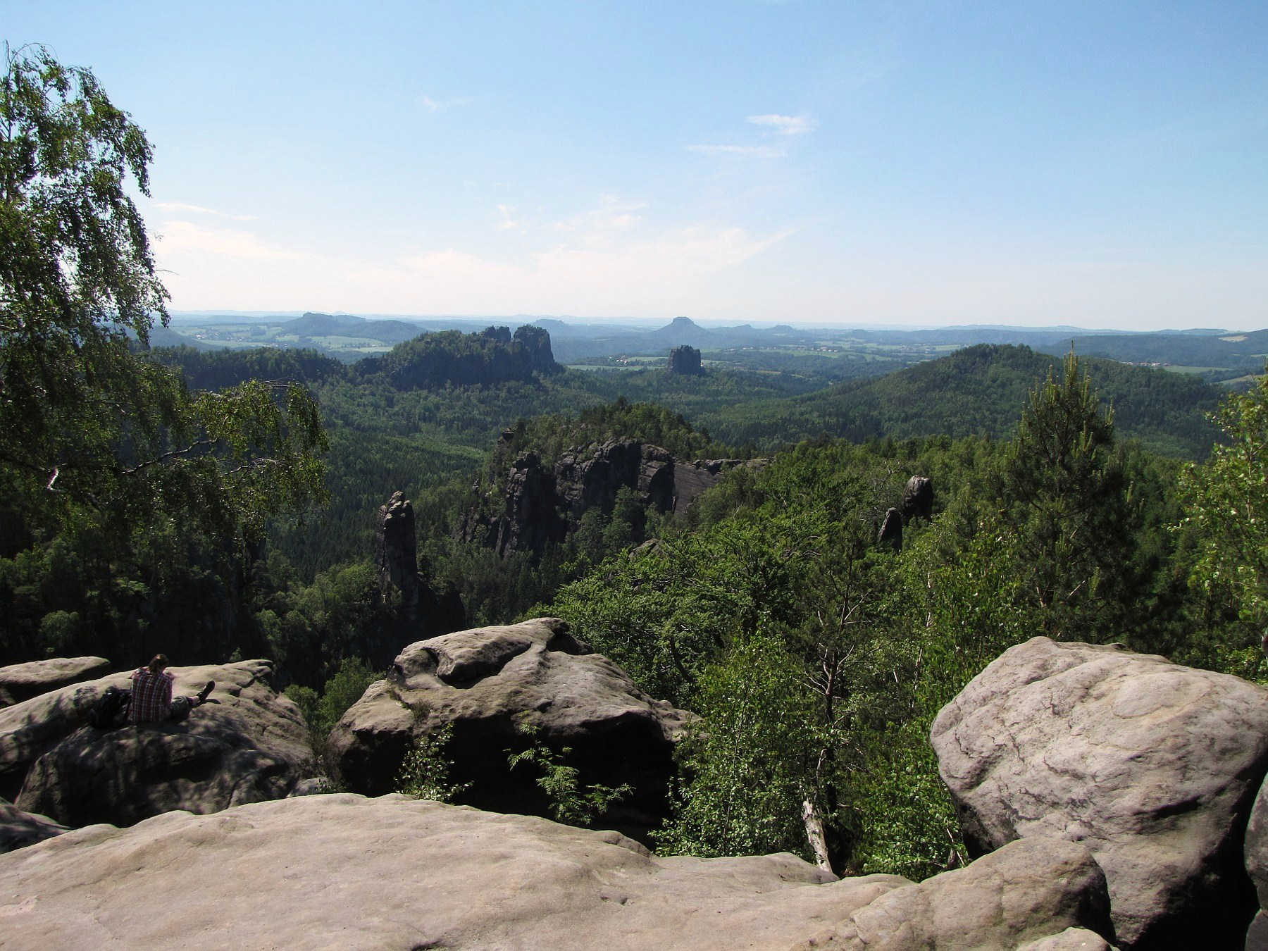 Germany, Saxon Switzerland, Monkey Stones: View to west from the Carolafelsen